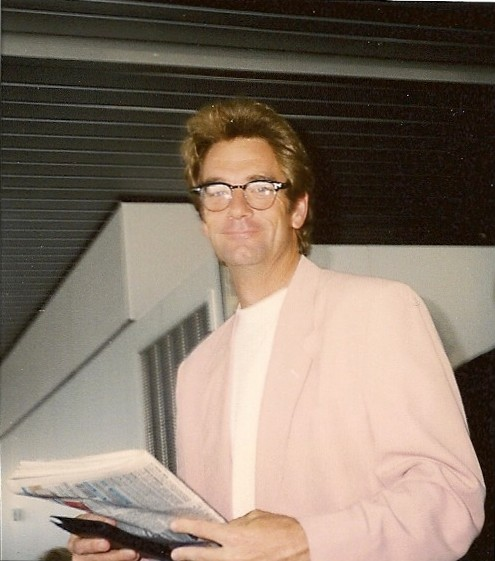 Huey Lewis at O'Hare International Airport.